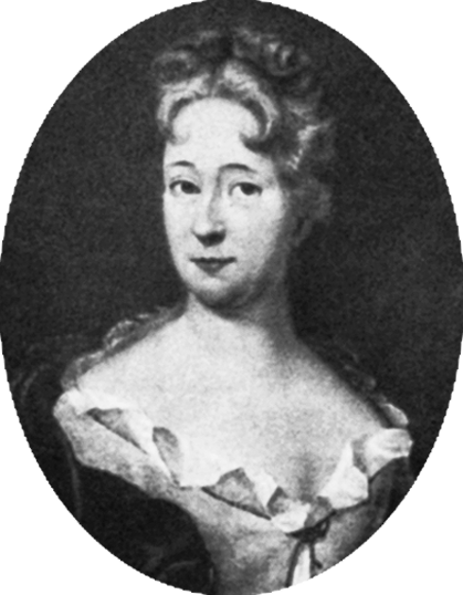 Portrait of the 18th-century Norwegian poet and translator Birgitte Christine Kass